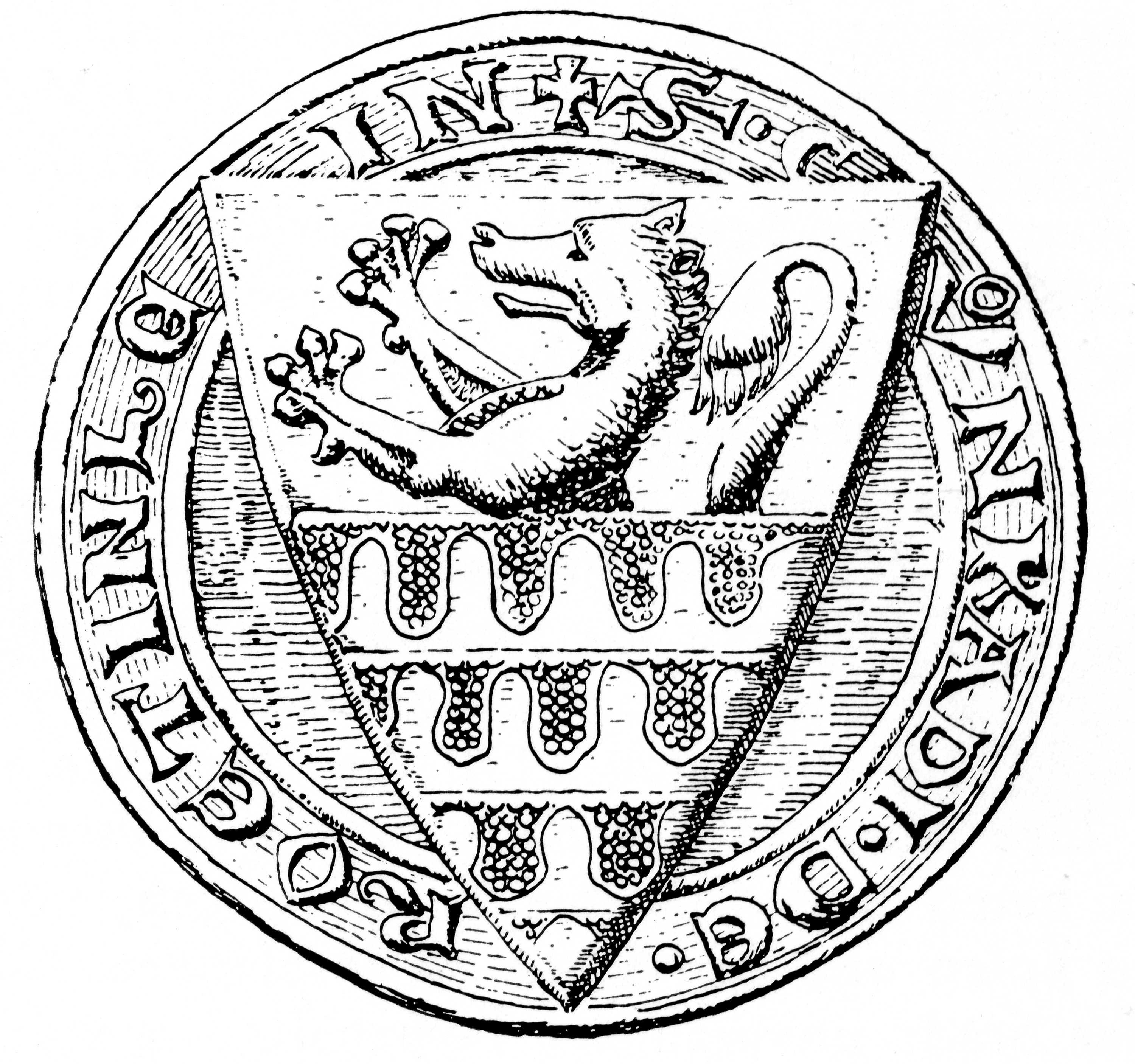 Seal of the Nobelman Conrad of Roetteln on a document dated November 13, 1254